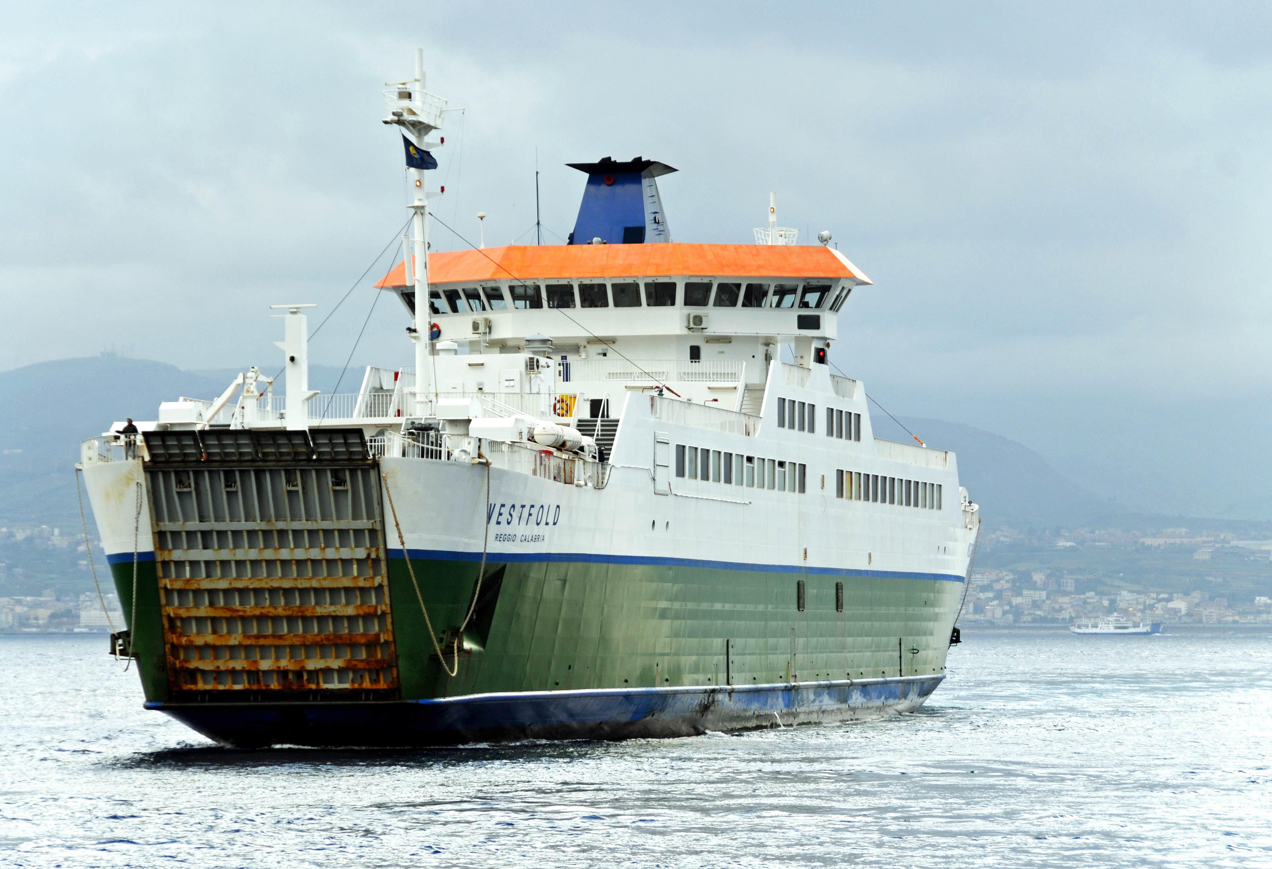 My photos are FREE for anyone to use, just give me credit and it would be nice if you let me know. Thanks Vestfold is the ferry we used to cross the Strait of Messina. It was built in 1991 by Trønderverftet, Hommelvik, Norway. It is a very short ride across the strait, approx. 20 minutes. Taken from the bus as it was docking.